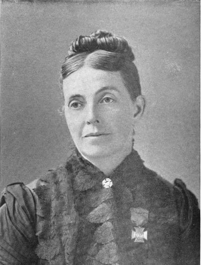 Mary Sears McHenry